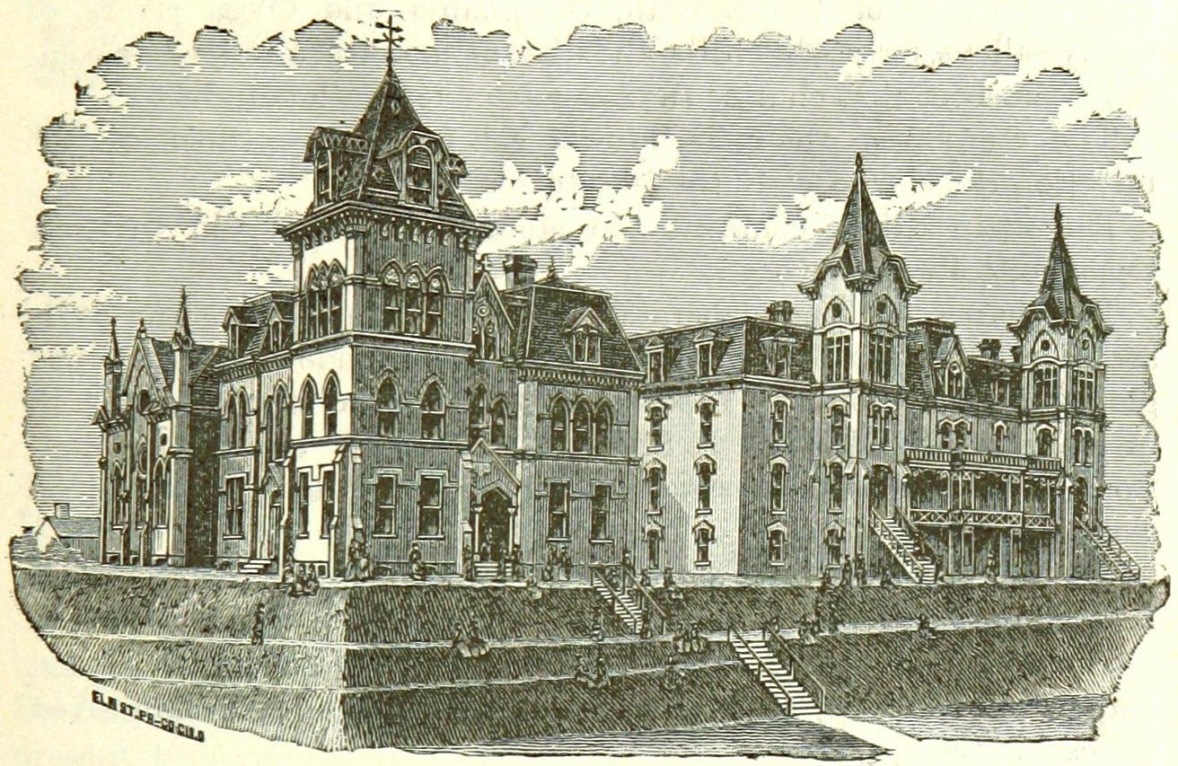 Image taken from: Title: "The Commonwealth of Georgia. The country; the people; the productions ... Prepared under the direction of J. T. Henderson" Author: HENDERSON, J. T. - Commissioner of Agriculture for Georgia Shelfmark: "British Library HMNTS 10412.ee.27." Page: 349 Place of Publishing: Atlanta, Georgia Date of Publishing: 1885 Publisher: J. P. Harrison & Co. Issuance: monographic Identifier: 001649021